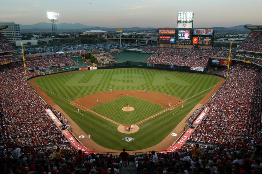 Angel Stadium of Anaheim, home of the Los Angeles Angels of Anaheim, a member of the Western Division of Major League Baseball's American League. The Angels play the Texas Rangers on opening day of 2003.